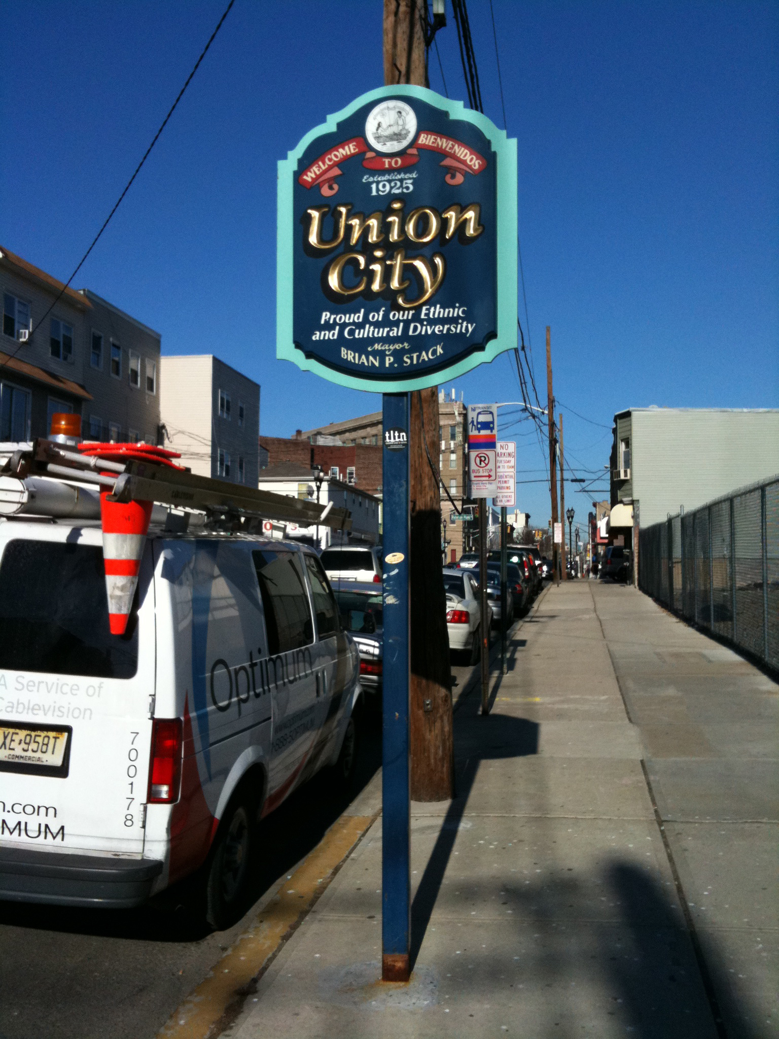 Sign in Union City, New Jersey, at its southern border with Jersey City on Summit Avenue, two blocks south of Transfer Station. Photo by Luigi Novi. This photo may be used for any purpose, provided that the photographer is visibly credited in each instance where it is used. For further information on the Licensing requirements (See Licensing information below), contact me at here.